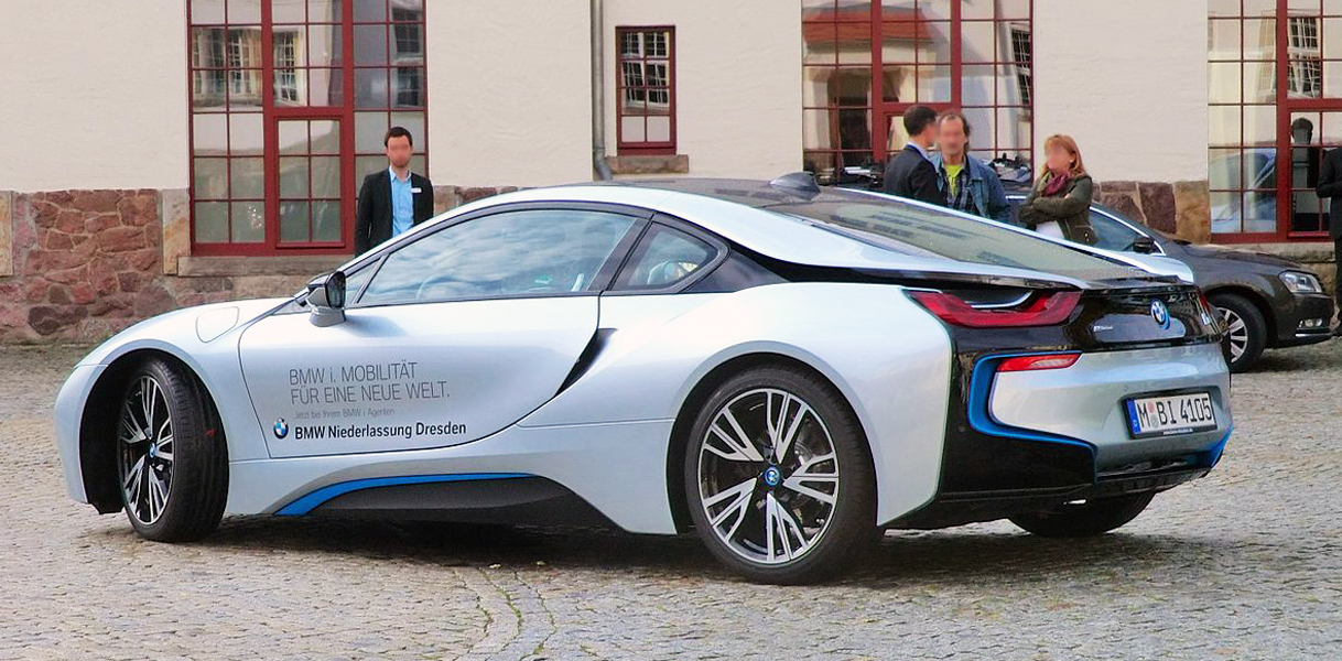 BMW i8 plug-in hybrid in Dresden